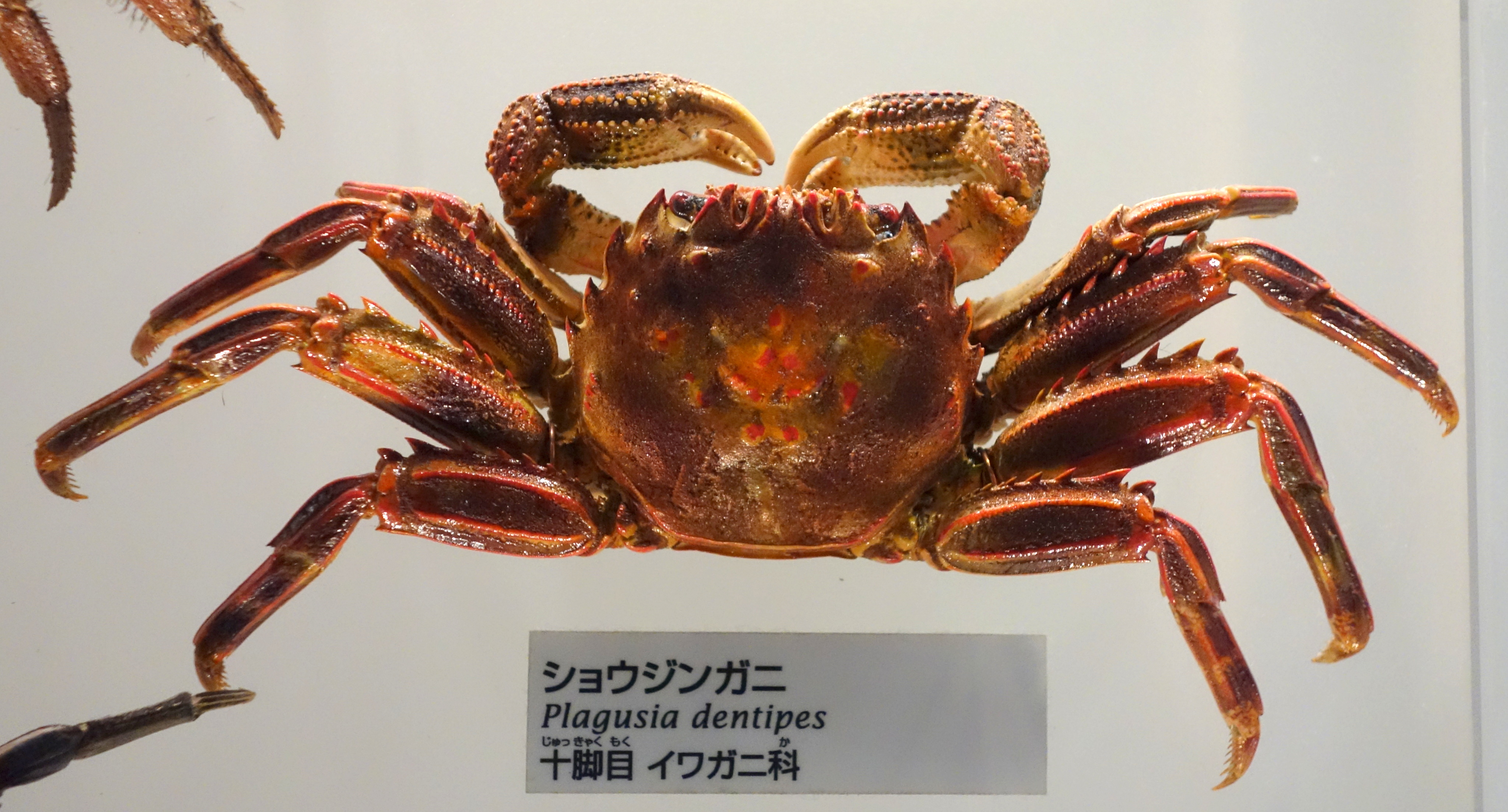 Exhibit in the National Museum of Nature and Science, Tokyo, Japan.